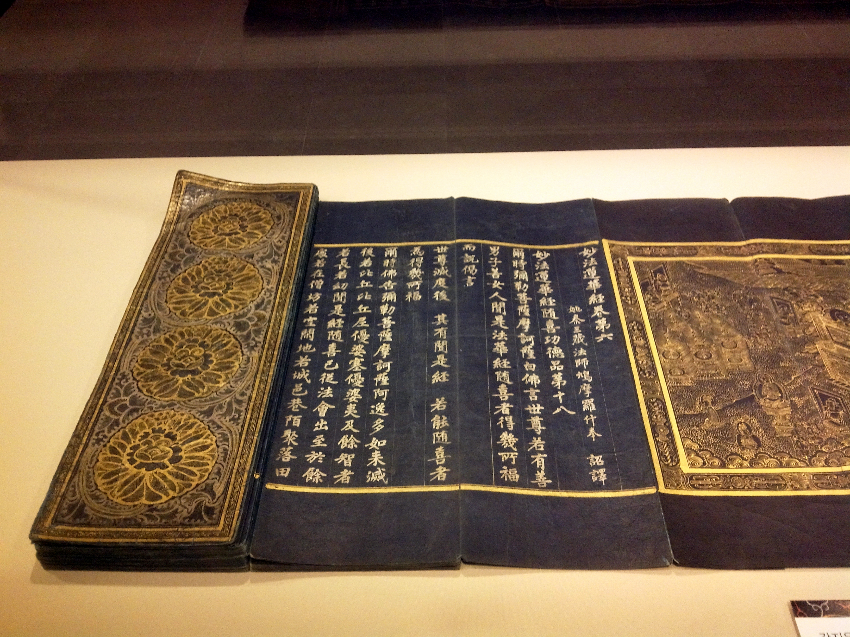 Goryeo-Illustrated manuscript of the Lotus Sutra from Gwangdeoksa temple in Chenan, Korea